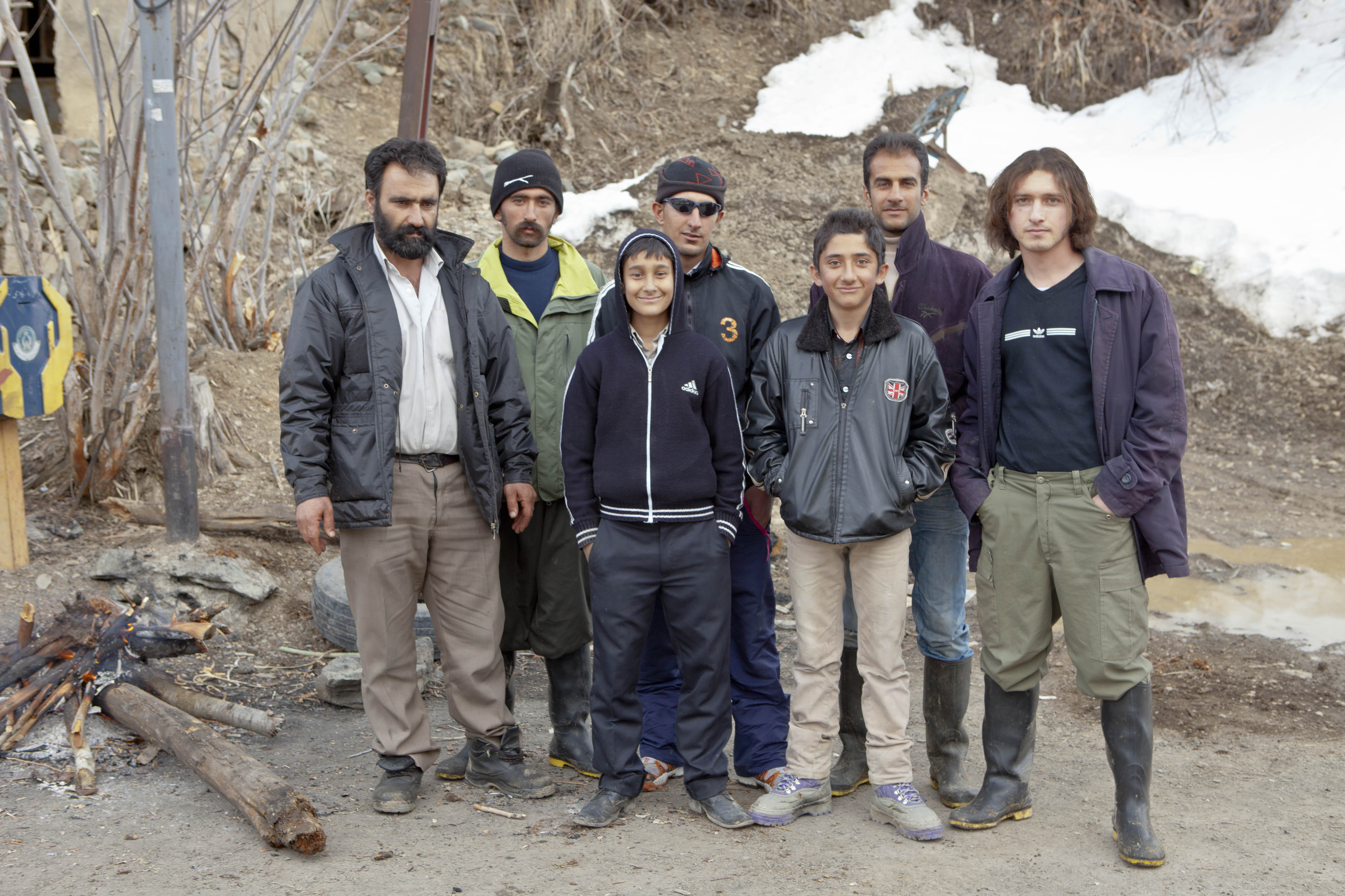 Afghan workers, Dizin, Iran